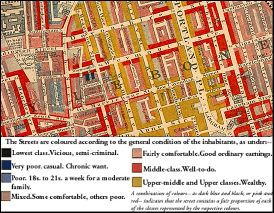 Map of section of St Marylebone from Charles Booth's Labour and Life of the People. The streets are coloured to represent the economic class of the residents.